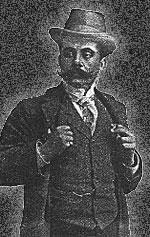 Vittorio Monti (1868–1922) Italian composer